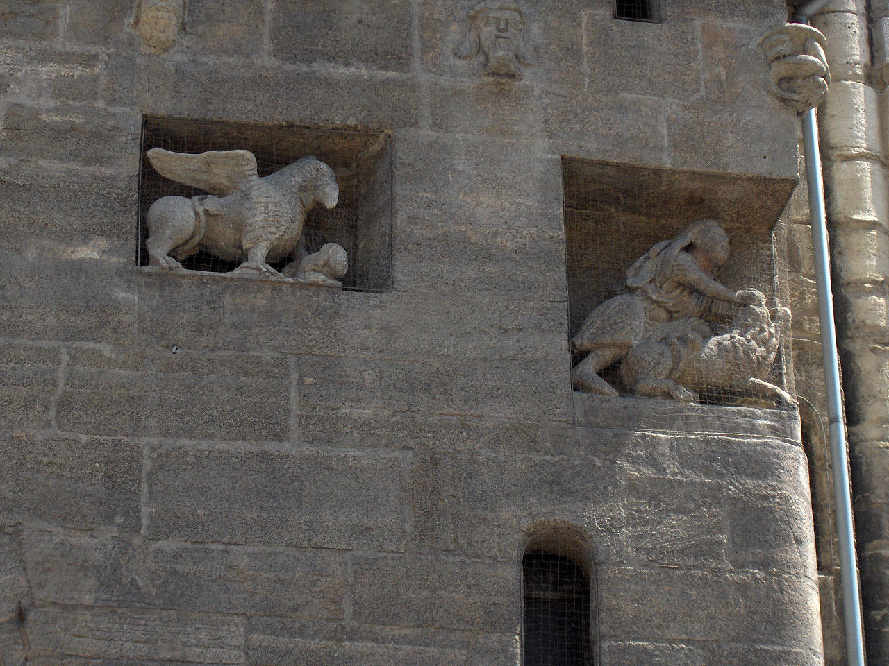 Statues in the wall of the Stephansdom in Vienna, Austria